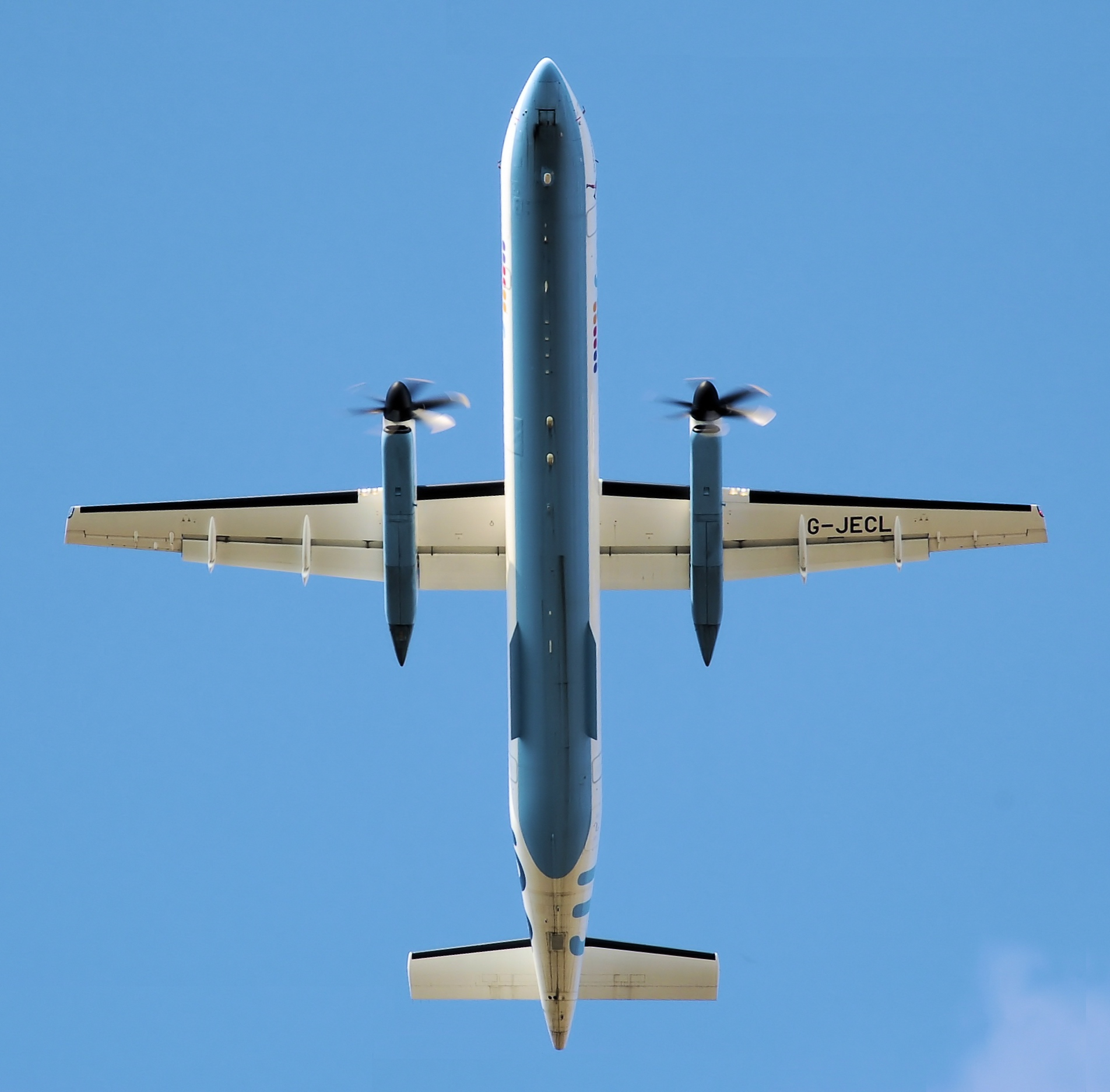 rotated and cropped version of File:Dash 8 in planform arp.jpg